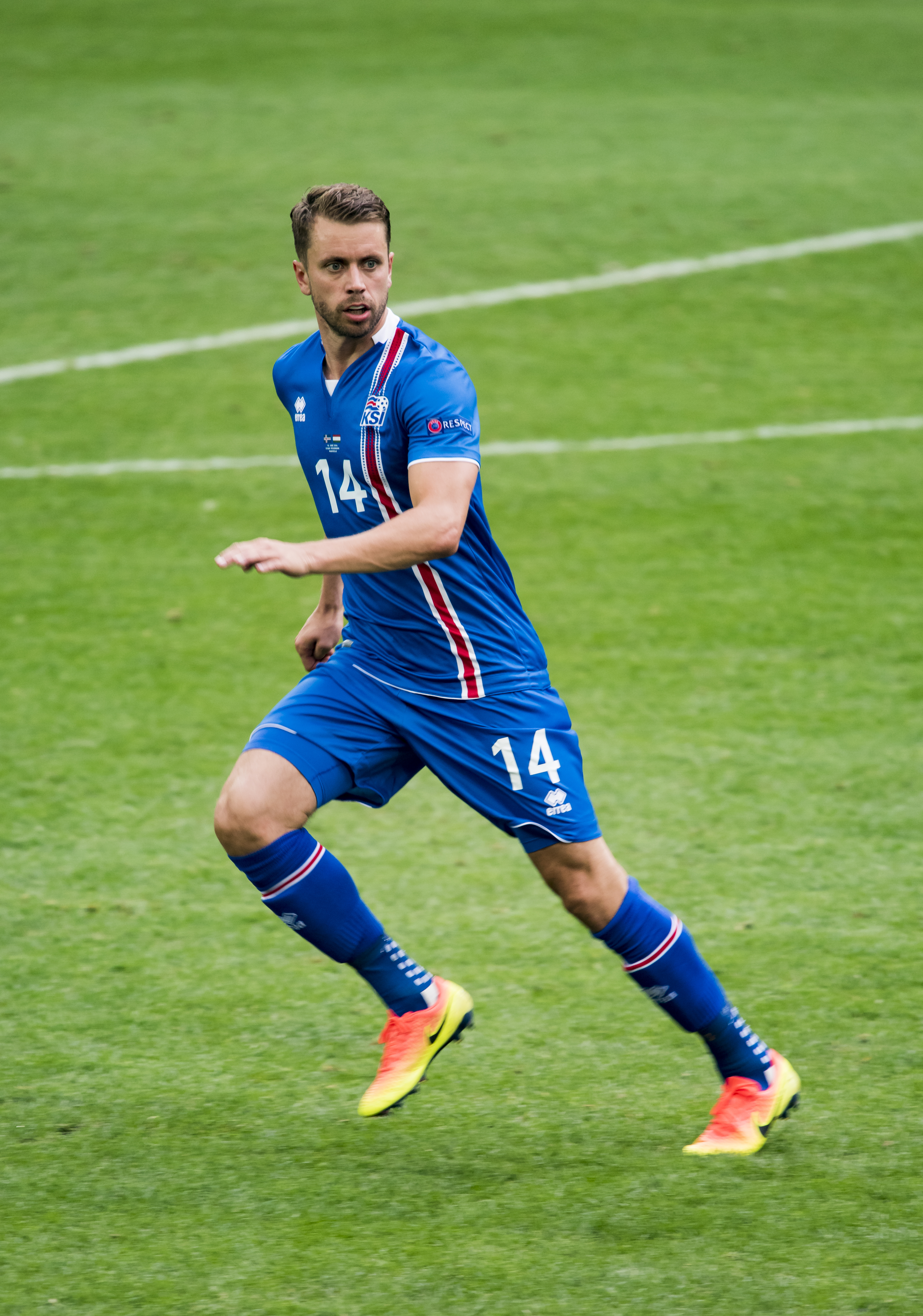 Kári Árnason playing for Iceland against Hungary Euro 2016